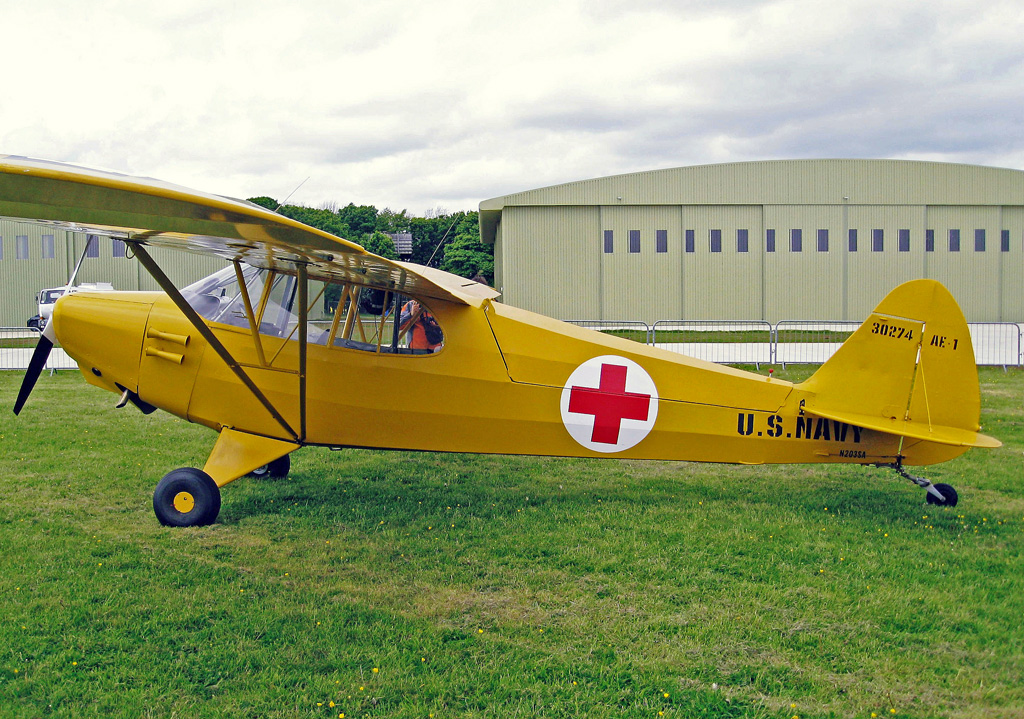 Piper AE-1 (J-5) N203SA at Kemble airfield UK in 2009.